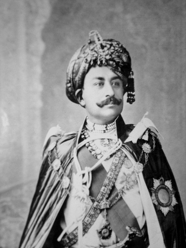 Maharaja Dhiraj Sawai Bahadur Maharao shree Khengarji III of Kutch